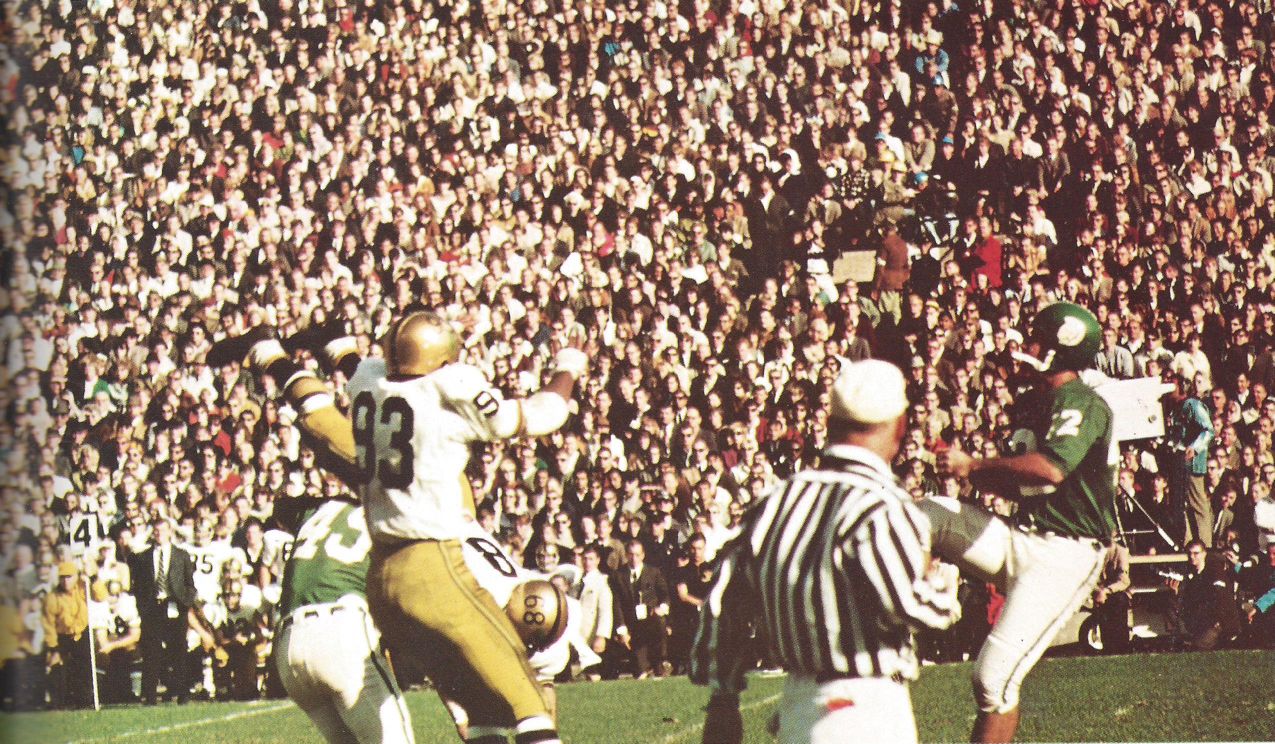 Michigan State place-kicker Mike Kenney kicks a field goal against Notre Dame in 1966